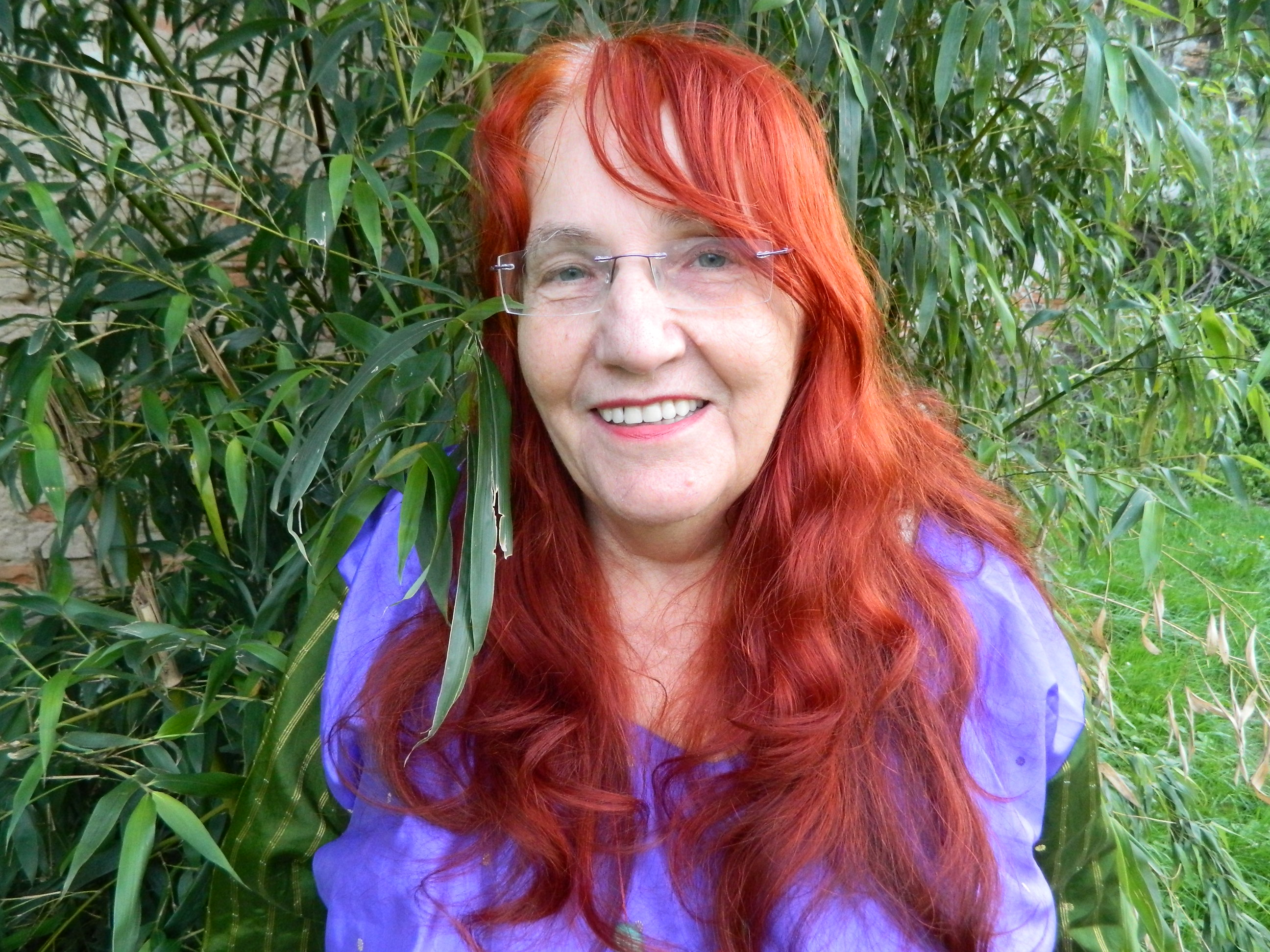 Emmy Cero-Friedl 2016